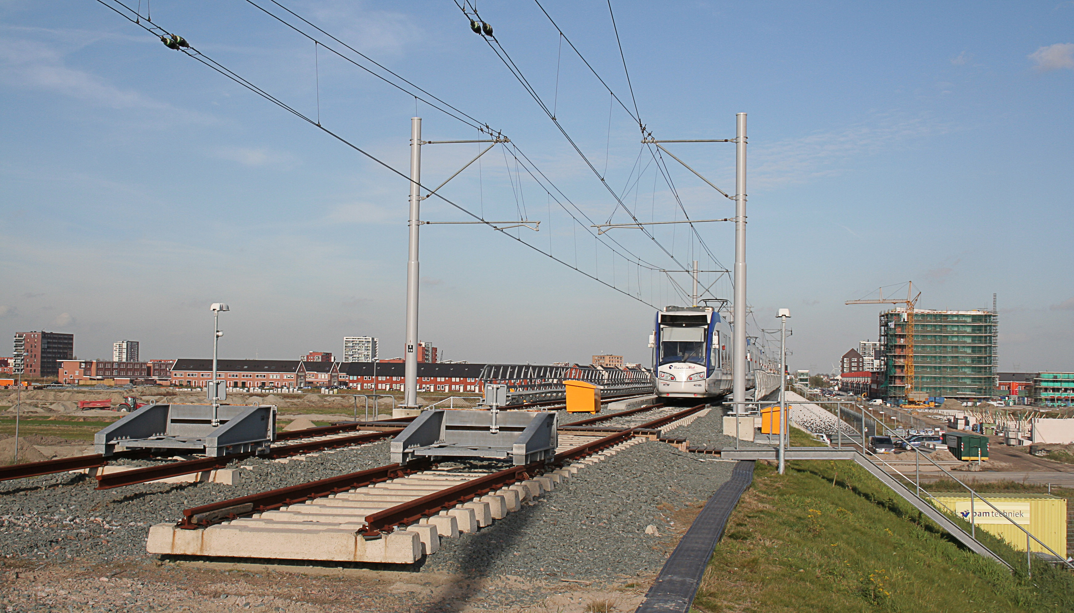 Zoetermeer Oosterheem